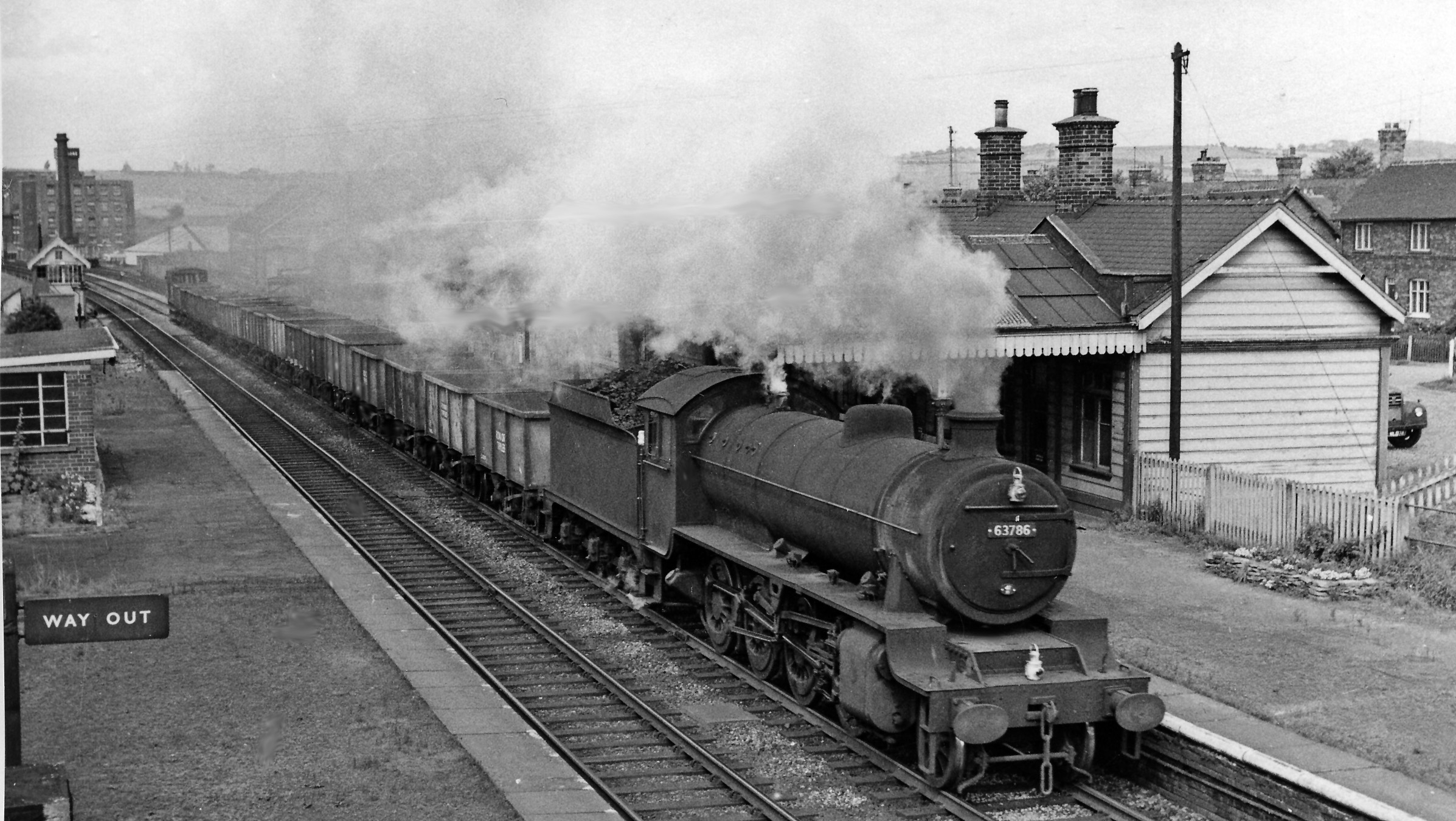 Up iron ore empties passing Killamarsh Central station. View northward, towards Sheffield (Victoria) etc.; ex-GC Sheffield - Nottingham and the South main line. The locomotive is Thompson Class O1 2-8-0 No. 63786, rebuilt 2/49 from ex-GC Class O4 No. 6515 (built 6/18 under Government order). There used to be three stations in Killamarsh on three busy lines, before the obliteration of heavy industry and closure of the productive coal mines in the area. Killamarsh Central station was closed to passengers on 4/3/63 when the ex-GC main Sheffield - Nottingham line was closed as a through route - to Goods in 6/65.